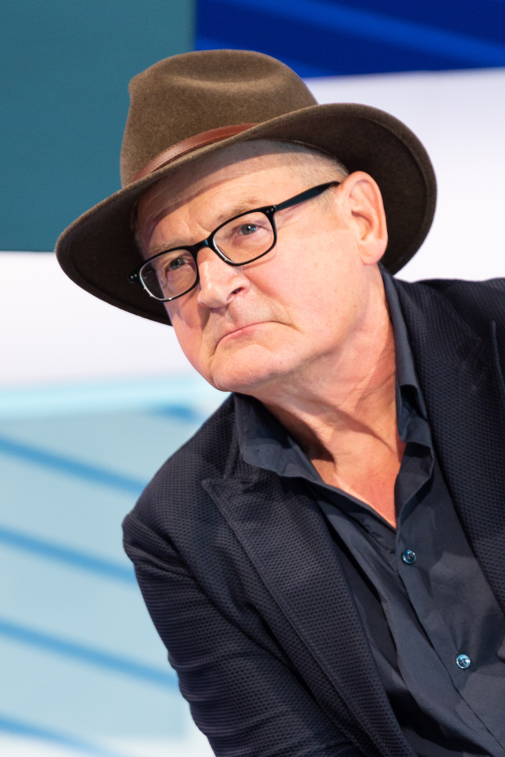 Burghart Klaußner at the Frankfurt Book Fair 2018